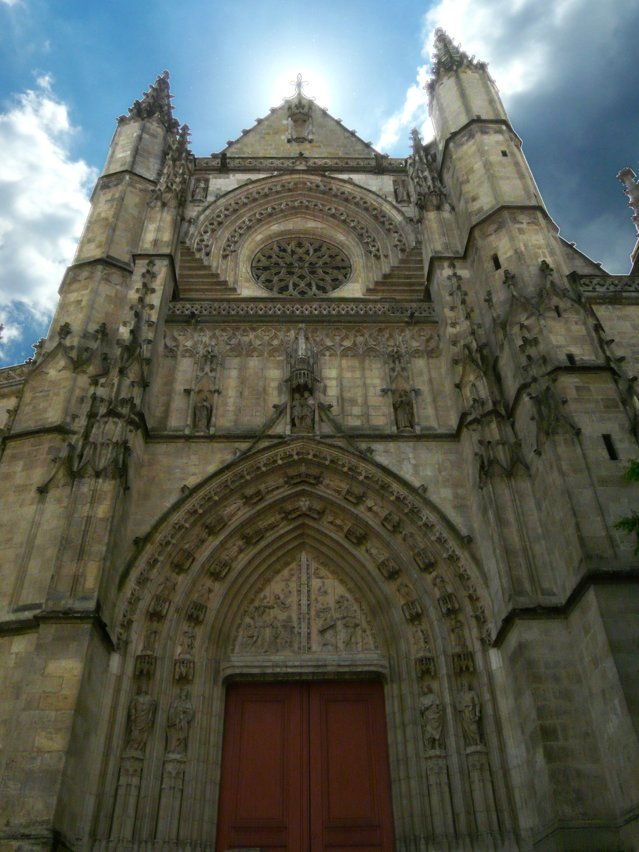 North entrance of basilica Saint Michael in Bordeaux, France, May 2010